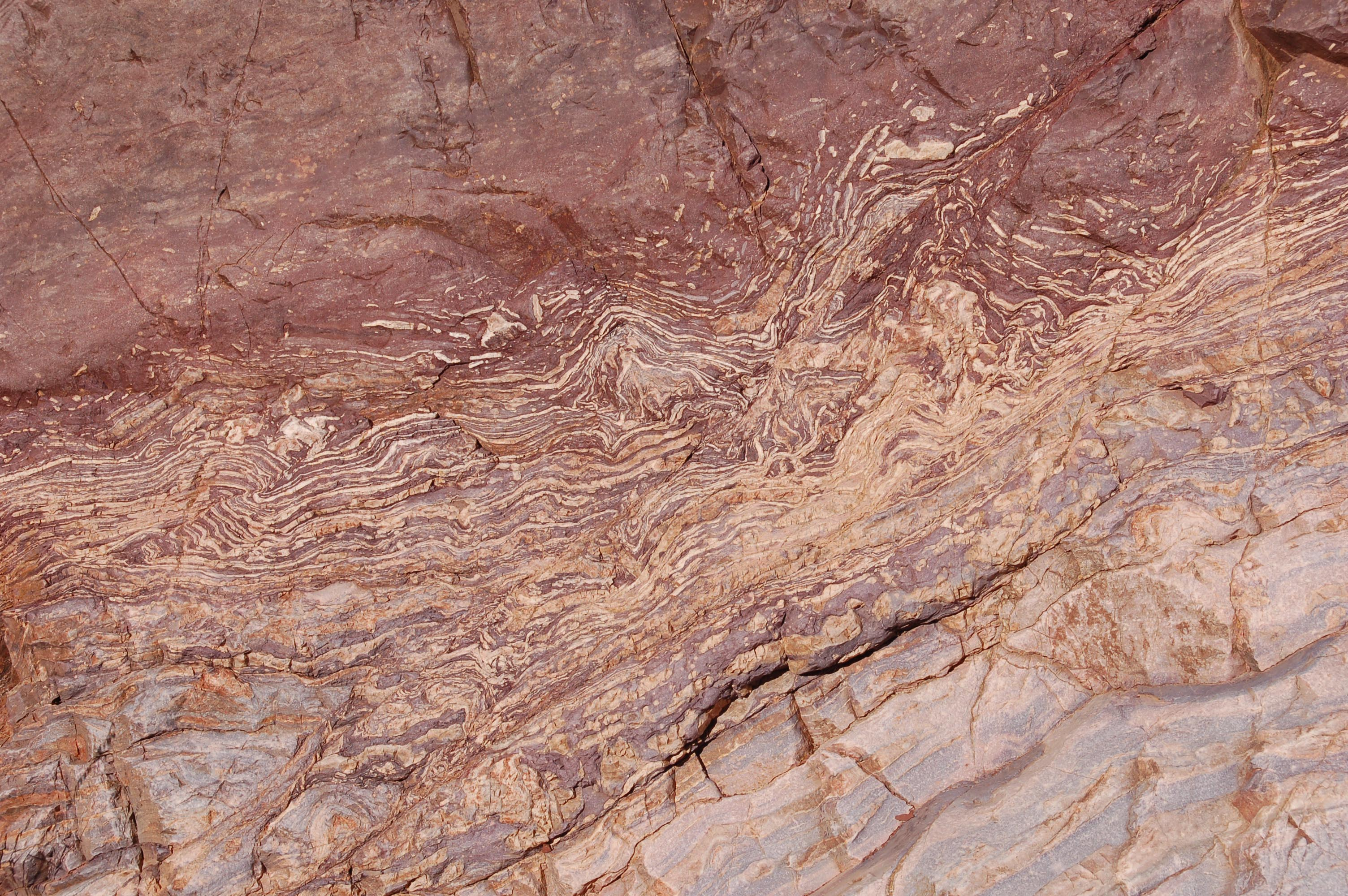 NPS Photo by Carl Bowman Bass Limestone: Thickness: 260-300 feet A number of different sedimentary rock types (such as conglomerate, dolomite and shale) occur within this light grey to brown formation. The Bass Limestone contains fossilized stromatolites, which are among the oldest fossils in the world. Their presence allows scientists to infer that the Bass Limestone was deposited in a warm and shallow sea environment.